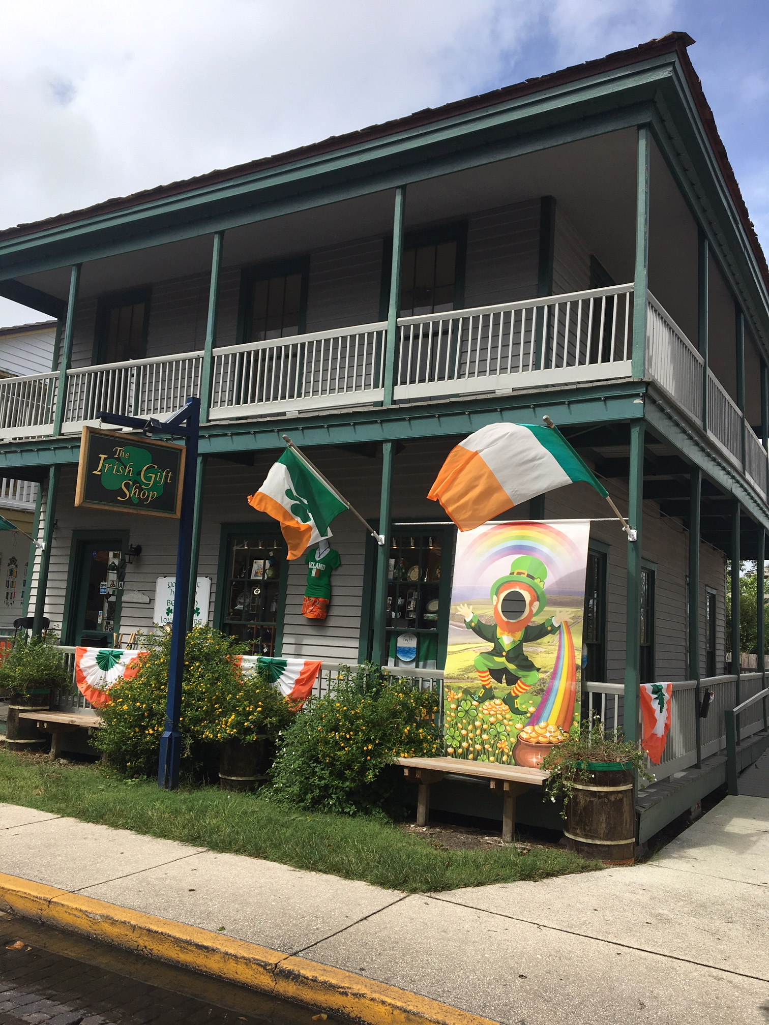 Cerveau House in St. Augustine, Florida